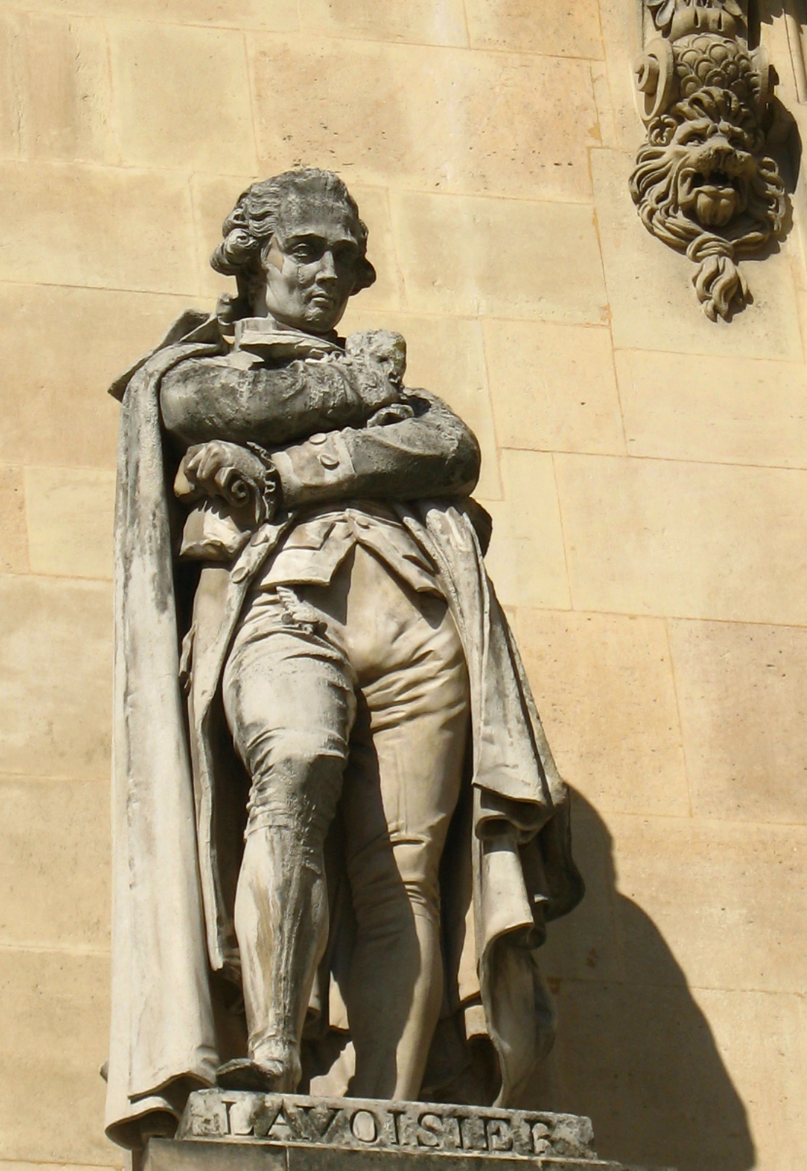 France visit